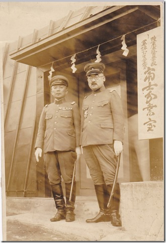 Japanese army surgeons Terashi Yoshinobu and Chikahiko Koizumi